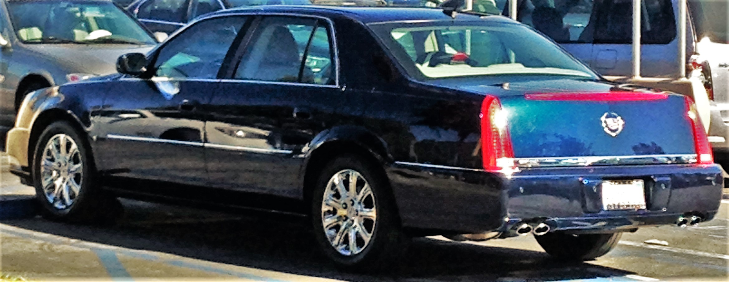 Cadillac DTS touring sedan